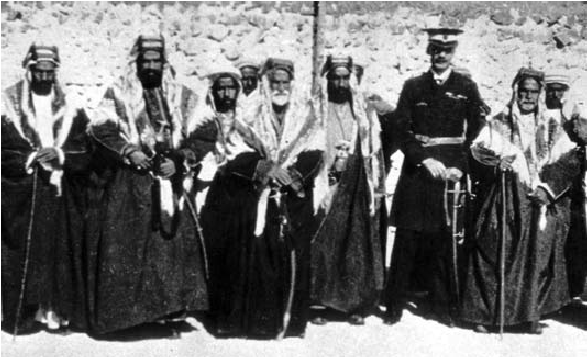 Shaikh Isa ibn Ali with his family and also to the left Shaikh Khalifa Ibn Ahmed Alghatam Alkhalifa with the British Political Agent, Major Daly. Taken and published in 1923.